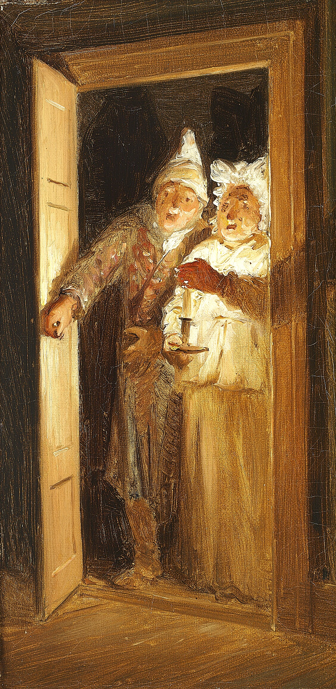 This is one of eight studies Bache made around 1872 as a proposed series of decorations for the foyer of the Royal Theatre in Copenhagen. The studies showed scenes from popular works played in the theatre. The proposal was not taken up. The lot comprised all of the eight studies.